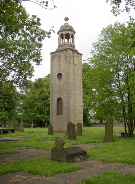 Tower of the former St Matthew's parish church, Lightcliffe, West Yorkshire. The church was first built in 1529 as St Matthew's Chapel, a chapel of ease in Halifax parish. Ir became known as Eastfield Chapel. It was suppressed about 1547 but restored in 1598. It was made a parish church in 1749. It was rebuilt in 1775 to designs by the architect was William Mallinson of Halifax. It was replaced in 1875 by a newer St Matthew's parish church further up Wakefield Road. All of the old church except the tower was demolished in 1969. In the belfry is a stone taken from an earlier church on this site, inscribed: Deo et Sancto Mattaeo Apostolo Evangelistae Martyri Sacra A. O. DCXXIX.